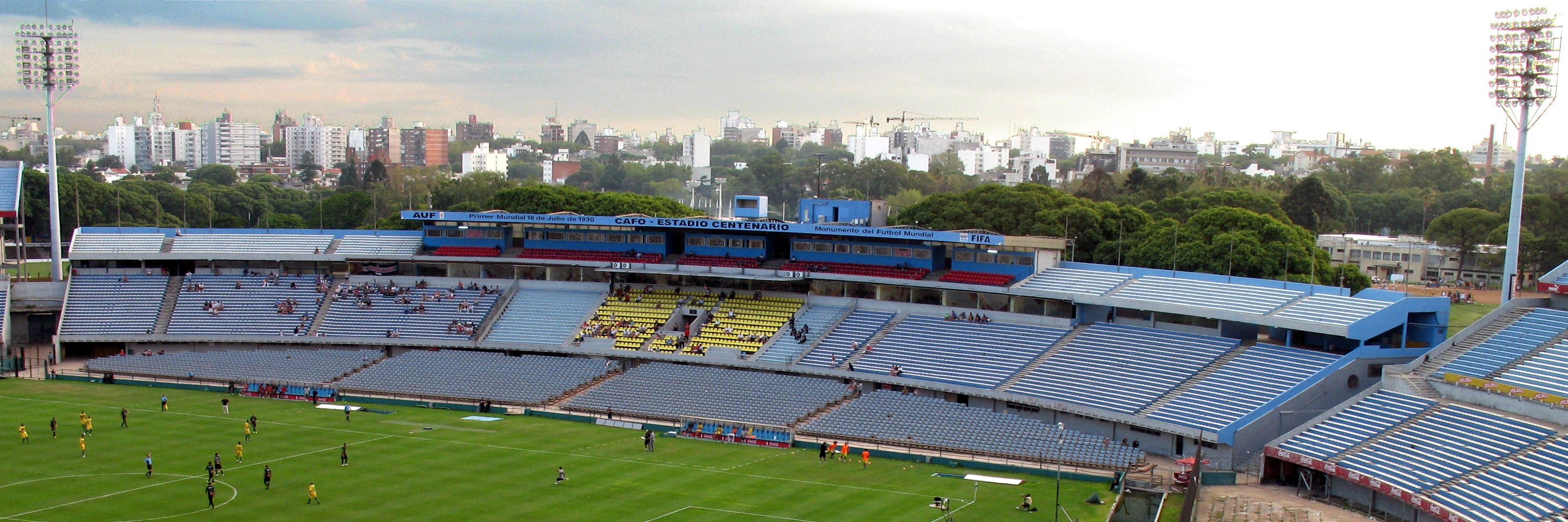 Estadio Centenario (Montevideo) Tribuna America